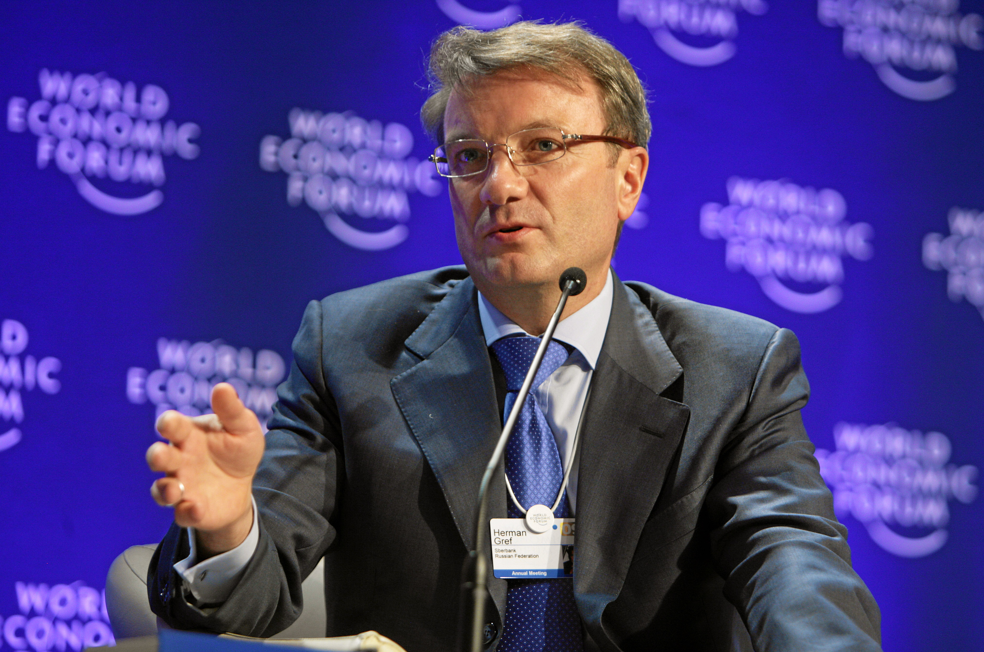 DAVOS-KLOSTERS/SWITZERLAND, 29JAN09 - Hermann Gref, Chairman and Chief Executive Officer, Sberbank, Russian Federation, captured during the session 'Managing Global Risks' at the Annual Meeting 2009 of the World Economic Forum in Davos, Switzerland, January 29, 2009. Copyright by World Economic Forum by Sebastian Derungs